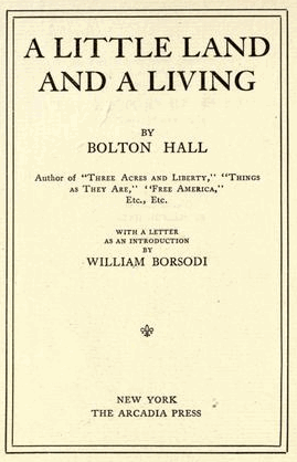 Screen shot of cover of book, A Little Land and a Living, a seminal work by Bolton Hall (activist), leading to the Little Landers movement. From Open Library at This book cover was published in 1908 along with the book. This book is discussed in the Bolton Hall (activist) article and may also be mentioned in other pertinent articles.